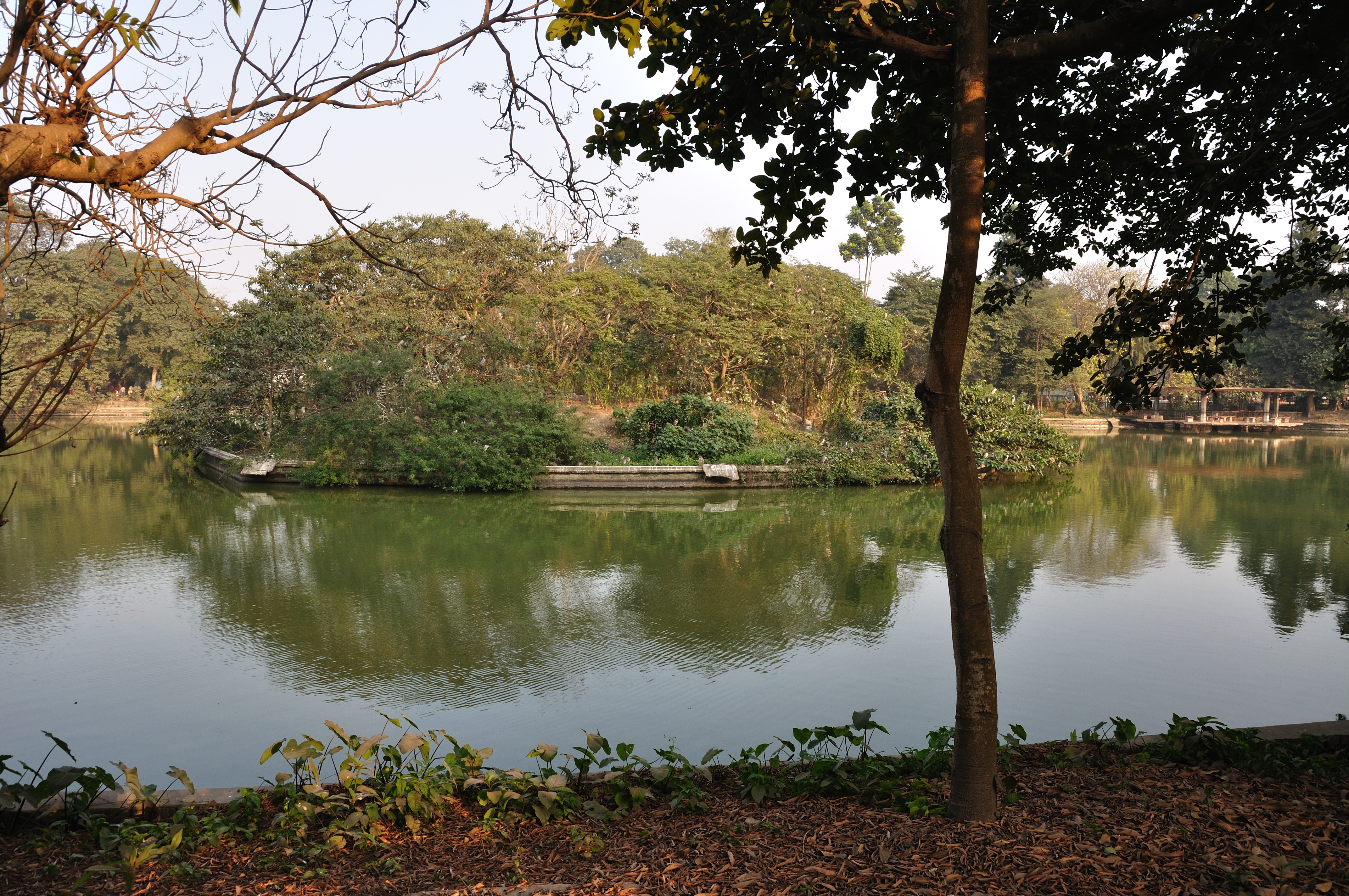 The Alipore Zoological Garden (also informally called the Alipore Zoo, Calcutta Zoo, Kolkata Zoo, or bn: Chiriyakhana, or hn: Chidiyakhana) is India's oldest formally stated zoological park and a big tourist attraction in Kolkata, West Bengal. It has been open as a zoo since 1876, and covers 45 acres (18 ha).